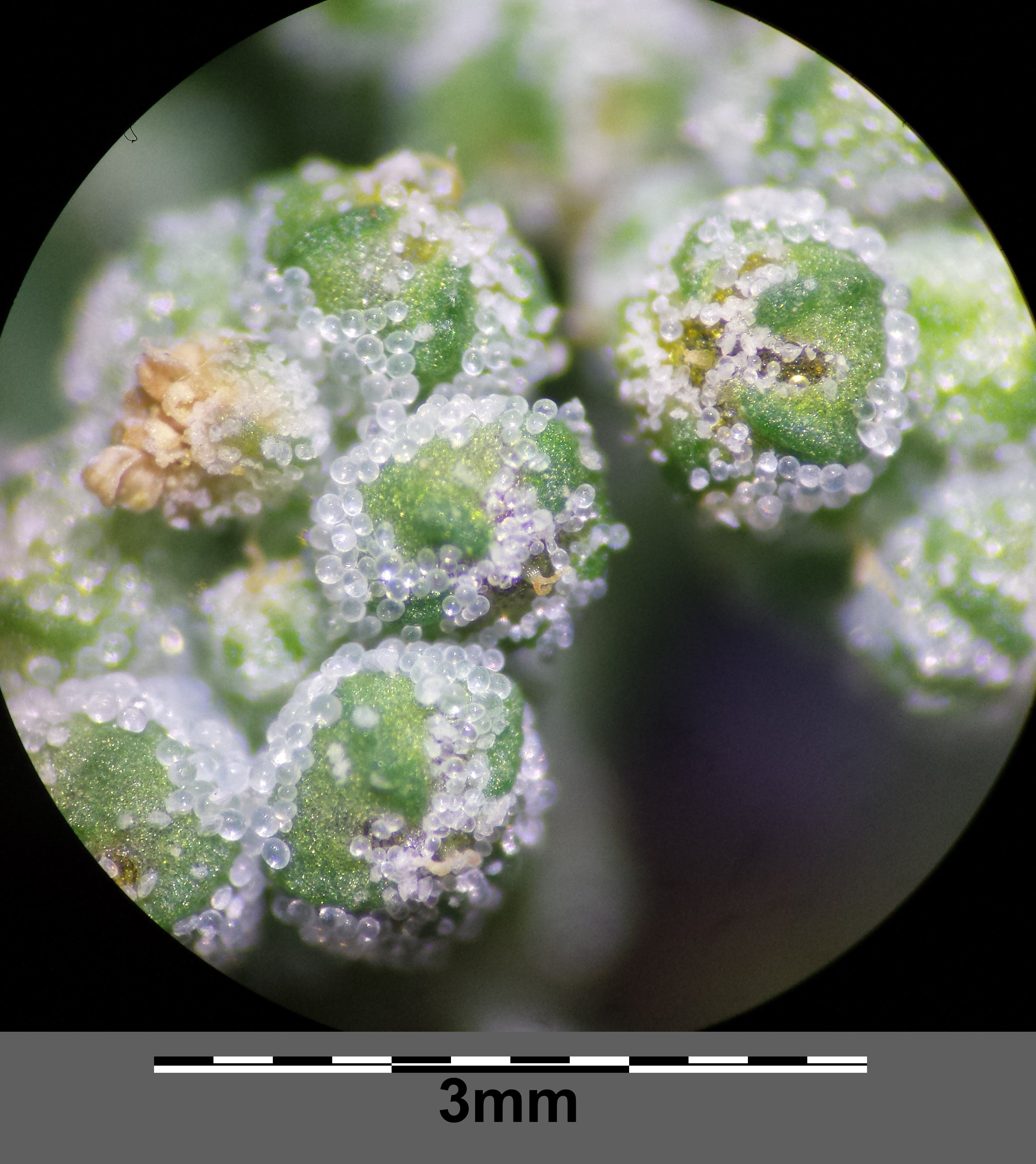 Inflorescence Taxonym: Chenopodium vulvaria ss Fischer et al. EfÖLS 2008 ISBN 978-3-85474-187-9 Location: Kagran, Vienna-Donaustadt - ca. 160 m a.s.l. Habitat: wall base